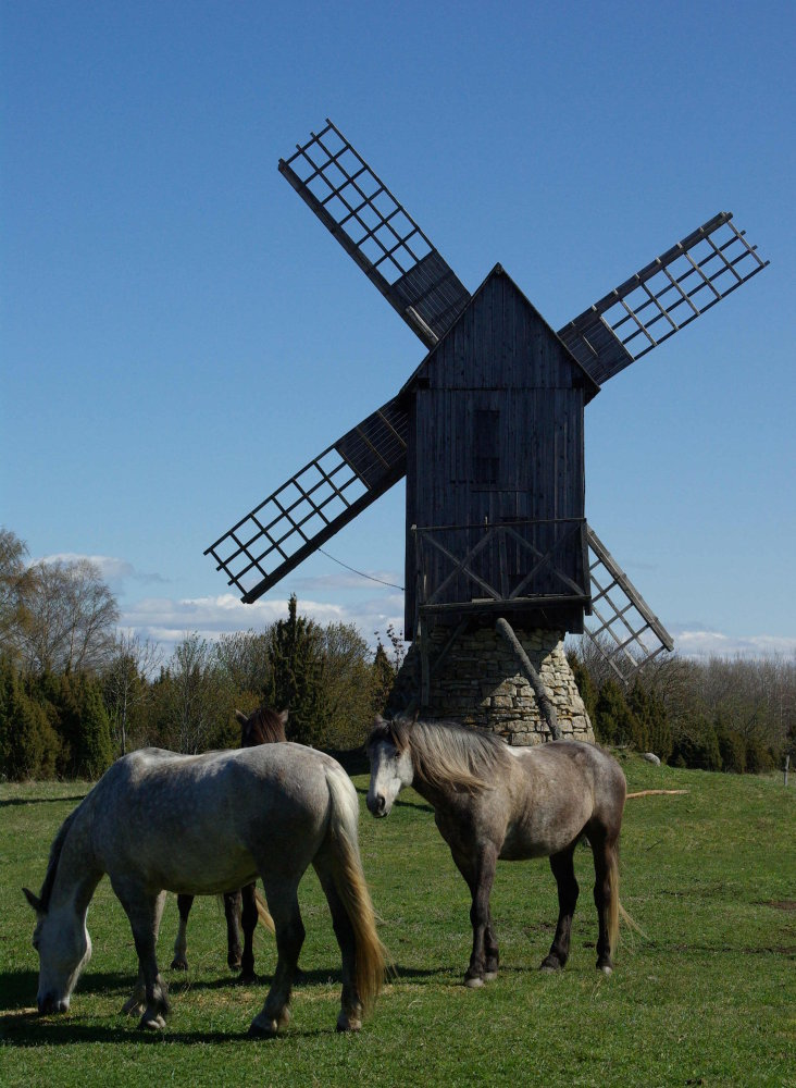 Horses and typical windmill from Estonian islands, it has fully steerable wooden body. Self made in Koguva, island of Muhu, Saare county, Estonia.